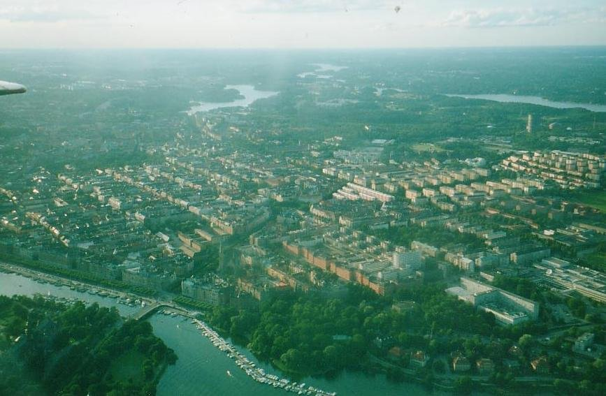 Aerial photograph of Östermalm and Gärdet in Stockholm, Sweden, with Vasastan, Norra Djurgården and Hjorthagen farther off